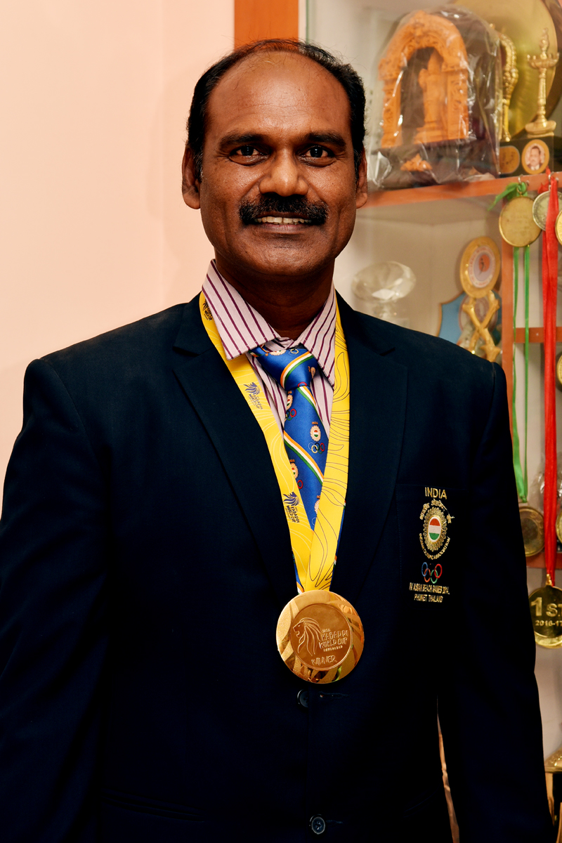 Baskaran With The Kabaddi World Cup 2017 Medal